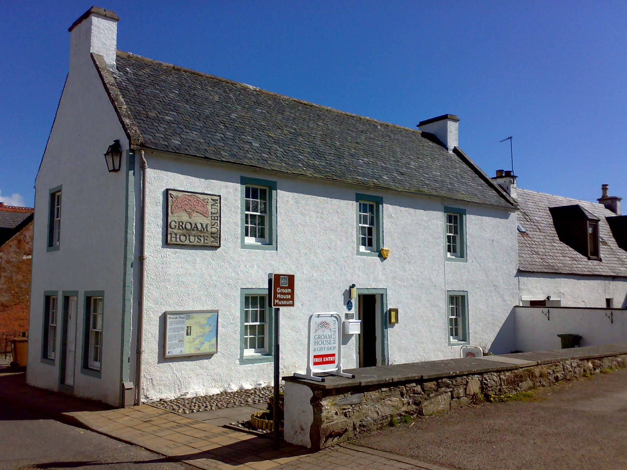 Exterior of the Groam House Museum, Rosemarkie, Black Isle, Scotland This file was uploaded as part of a GLAMWiki partnership with Groam House Museum. You can find out more on the Museums Galleries Scotland project page. This tag does not indicate the copyright status of the attached work. A normal copyright tag is still required. See Commons:Licensing.